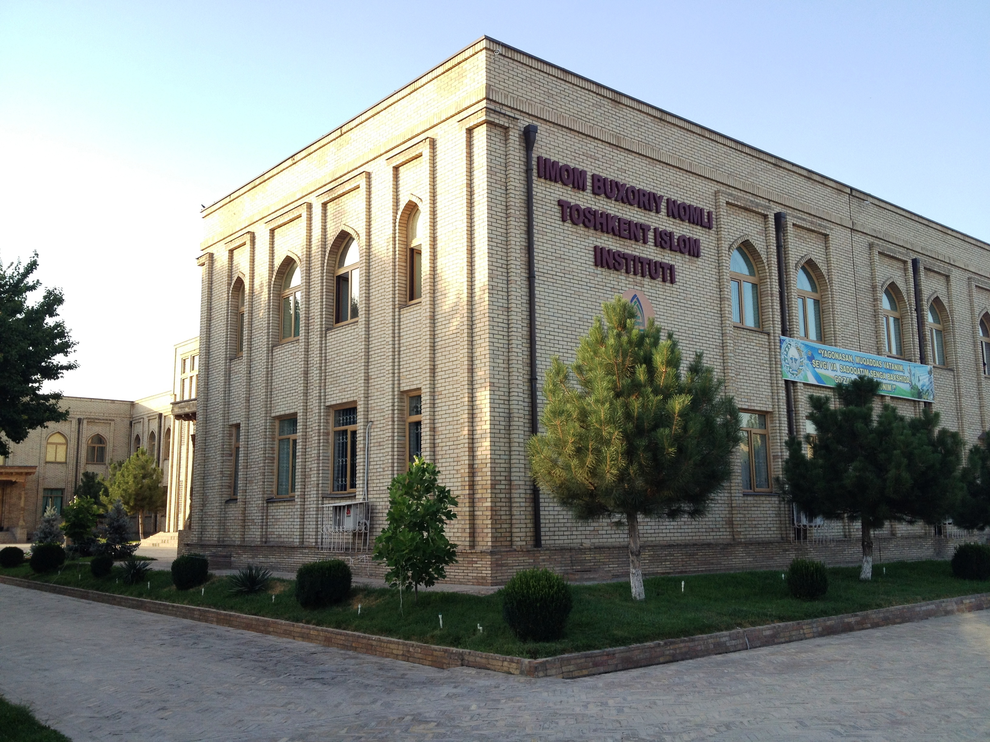 Building of Tashkent Islamic Institute named after Imam Bukhari